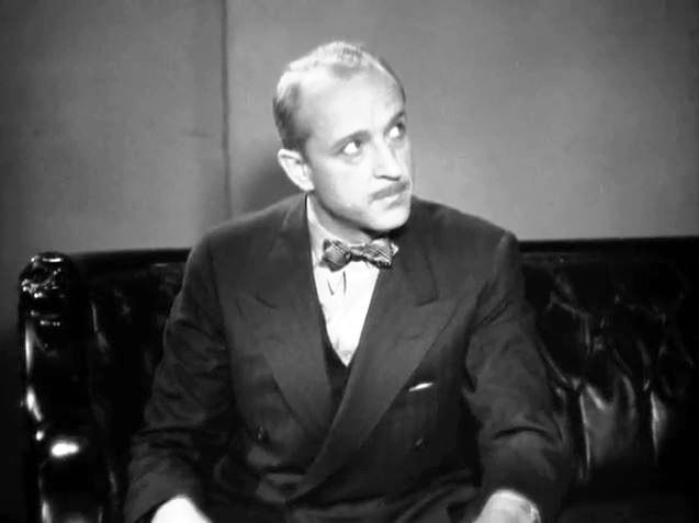 Low resolution screenshot of Jonathan Hale from the American film Charlie Chan's Secret (1936) where he portrayed lawyer Warren Phelps. The film is in the public domain due to the omission of a valid copyright notice on its original prints.